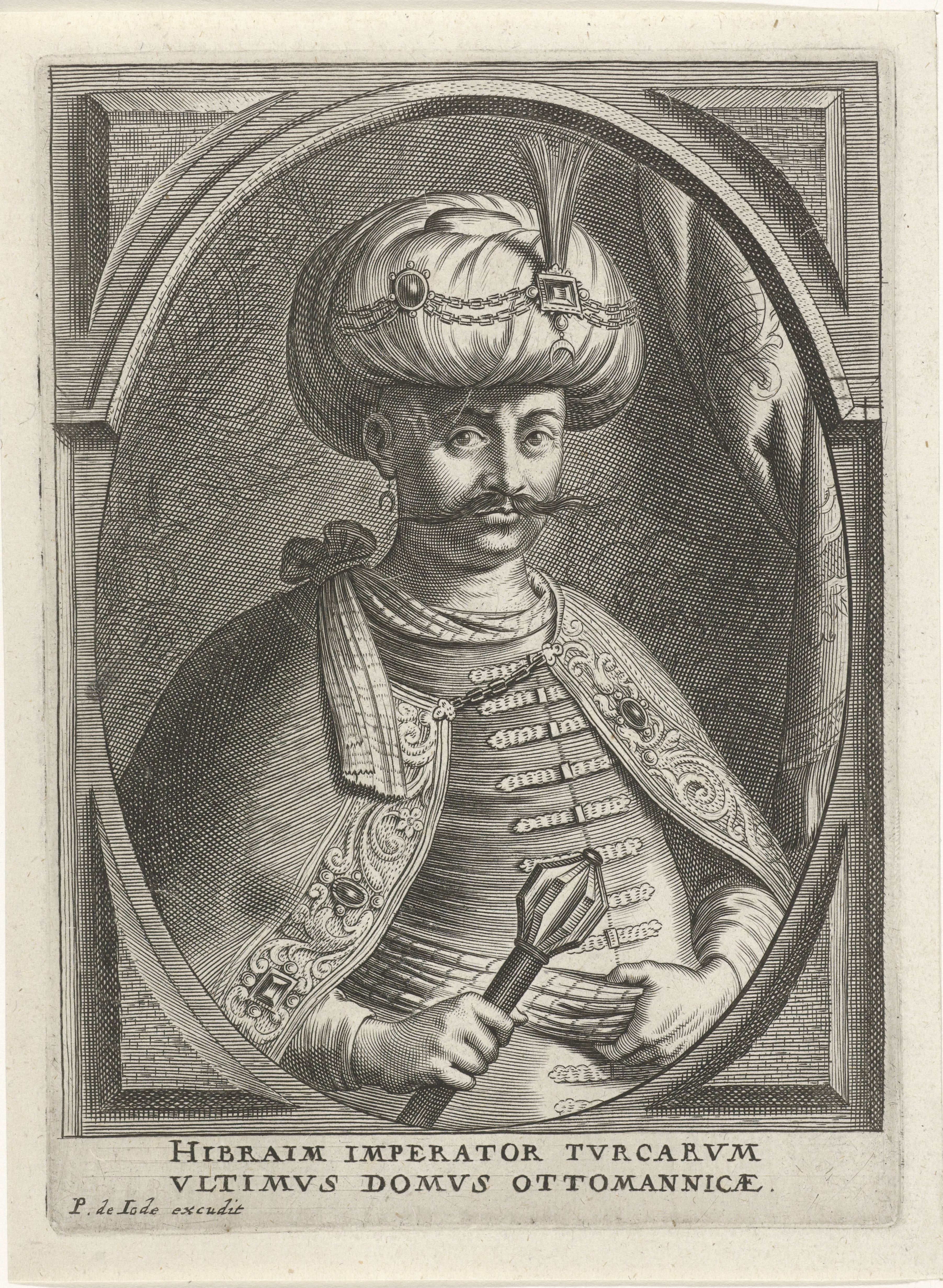 Sultan Ibrahim, 17th-century Flemish etching. Latin text in the bottom. Between 1628-1670.